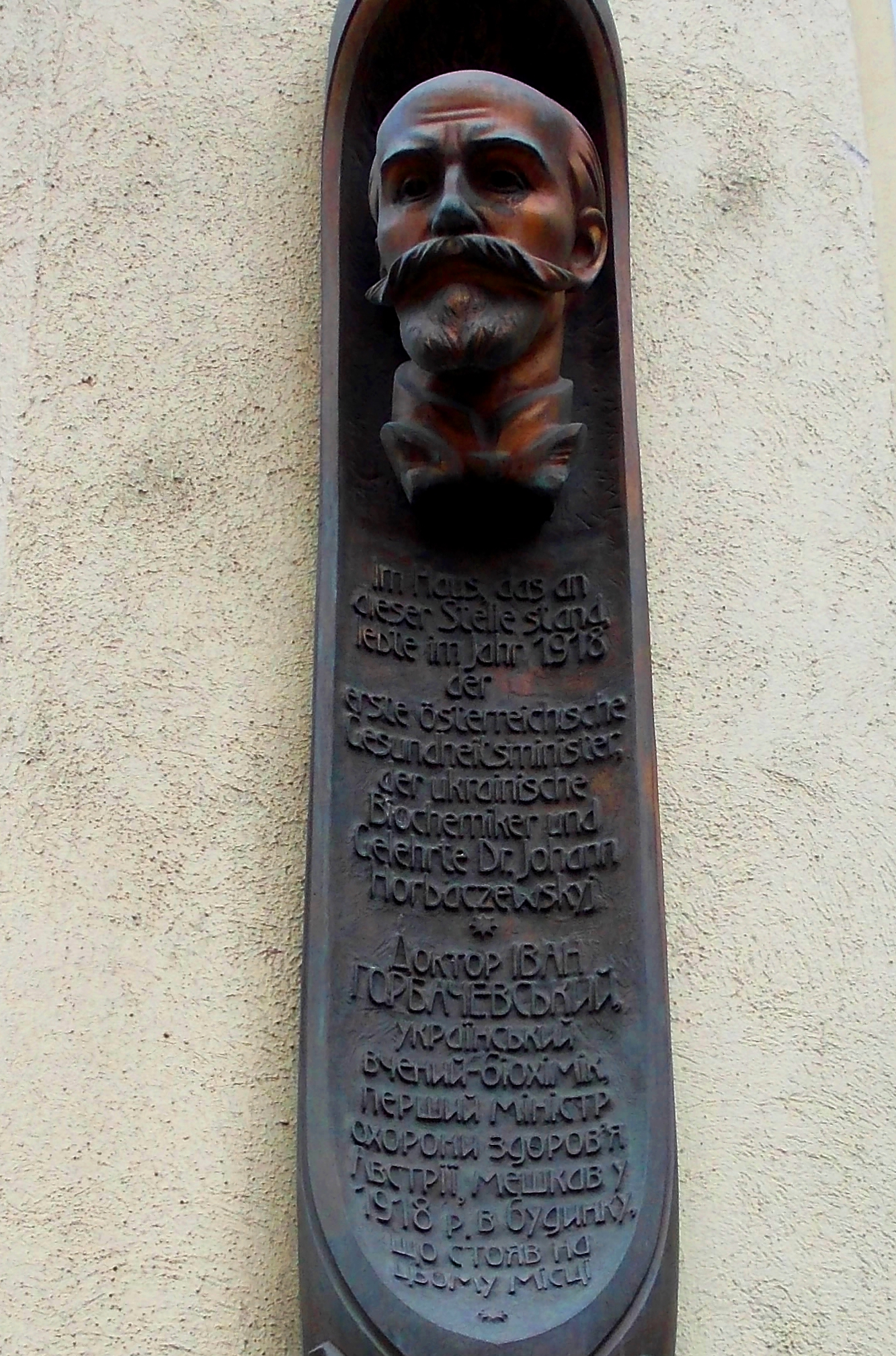 Ivan Horbaczewski Commemorative Plaque in Vienna